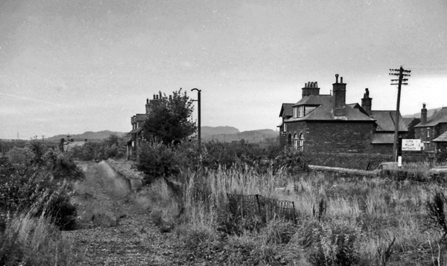 Broughton-in-Furness Station (remains), View SW, towards Foxfield; ex-Furness Foxfield - Coniston branch. The station and branch lost their passenger service on 6/10/58 and closed completely on 30/4/62.